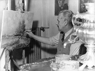 The painter Ivan Karpoff in his atelier in Milano (Italy)